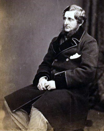 Art Institute of Chicago caption reads "Sir J. Montagu Steele (1820-1890), Military Secretary, Crimea, 1855". Thinly albumenized print, from a collodion wet plate negative Comment : Correct name was Thomas Montagu Steele.